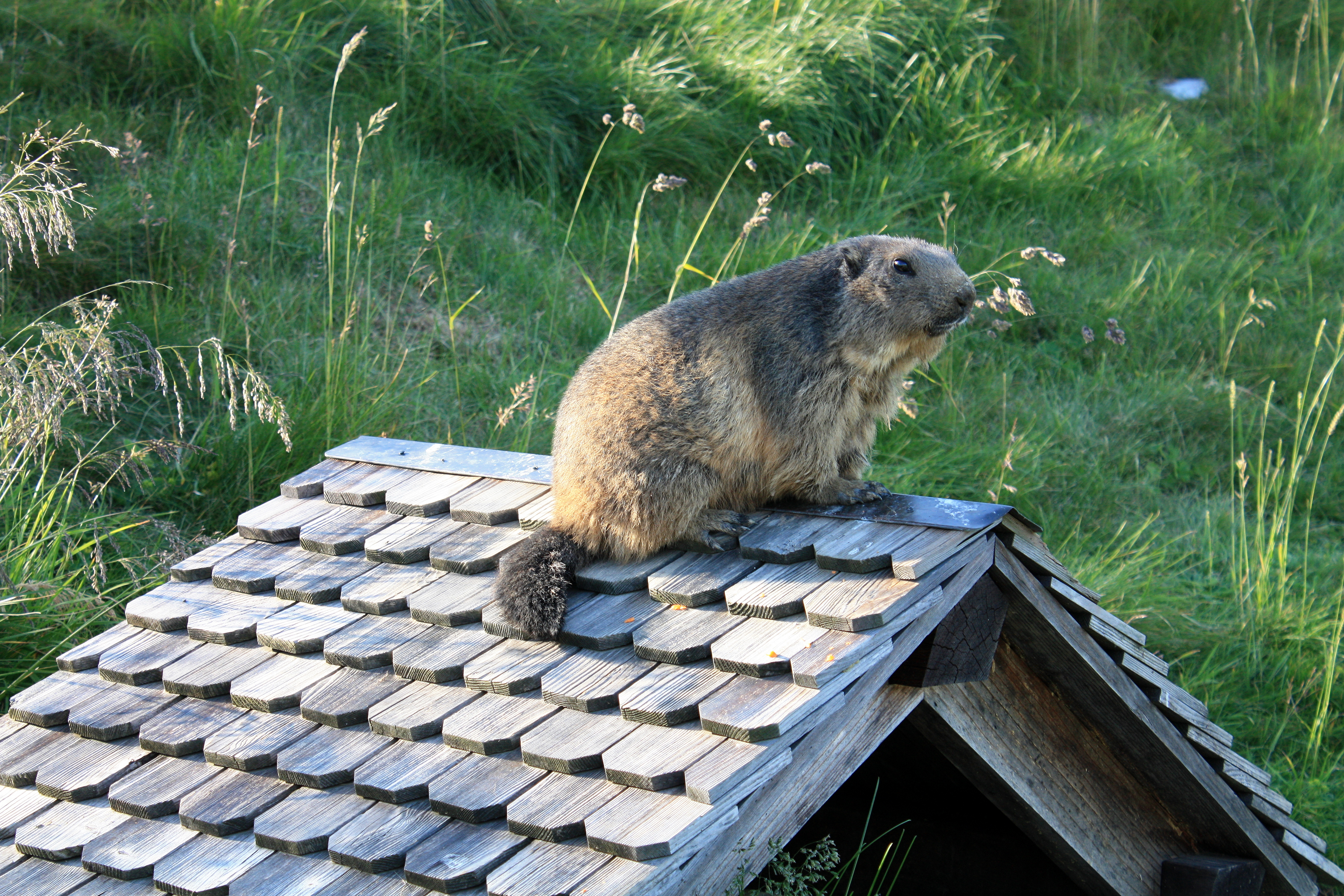 Marmota bobak (native to Kazakhstan, Ukraine, and Russia) at Rochers-de-Naye, Switzerland, 2009